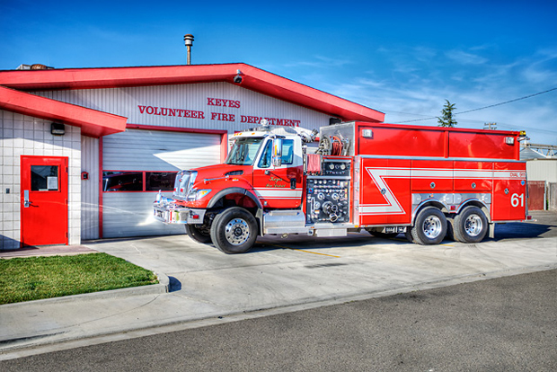 KEY T-61